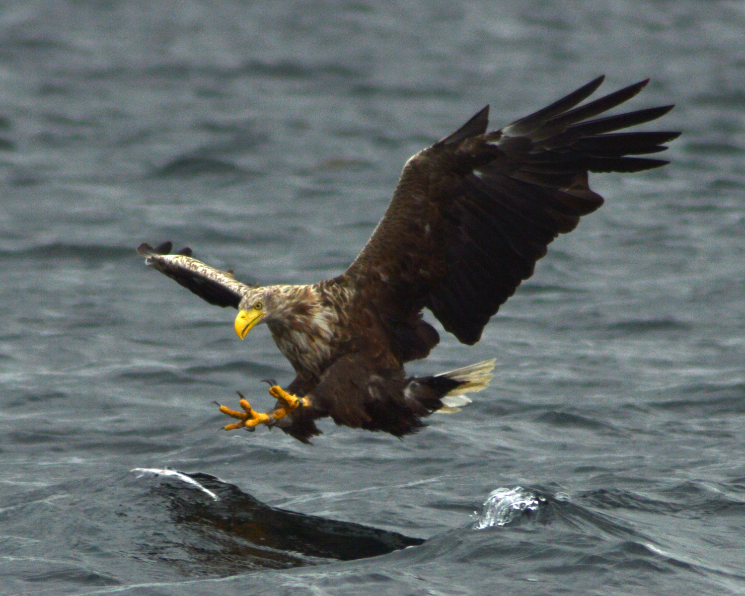 An adult White-tailed Eagle off the coast of the Isle of Mull, Scotland. The fish is probably a dead one thrown into the sea for the eagles to collect.